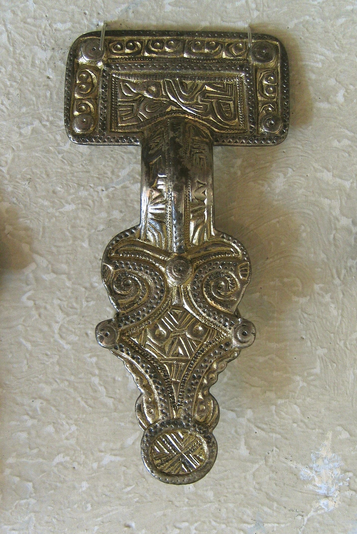 The so-called large Rune Fibula of Nordendorf I. Found in 1843 in an Alemannic grave field of mid 6th to late 6th century A.D. (Düwel, Klaus: Runenkunde. 4., überarbeitete und aktualisierte Auflage, Stuttgart 2008, p. 63 and Runenprojekt Kiel) near Nordendorf, Bavaria, Germany. The fibula bears a runic inscription on the back side of its head plate: (first line) logaþore wodan wigiþonar (second line) awa (l)eubwini. Photographed at the Römisches Museum, Augsburg, Germany.